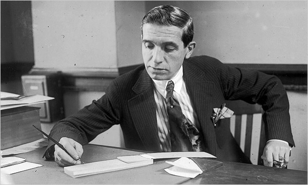 Charles Ponzi (March 3, 1882 – January 18, 1949). Charles Ponzi was a businessman born in Italy who became known as a swindler for his money scheme. His aliases include Charles Ponei, Charles P. Bianchi, Carl and Carlo.